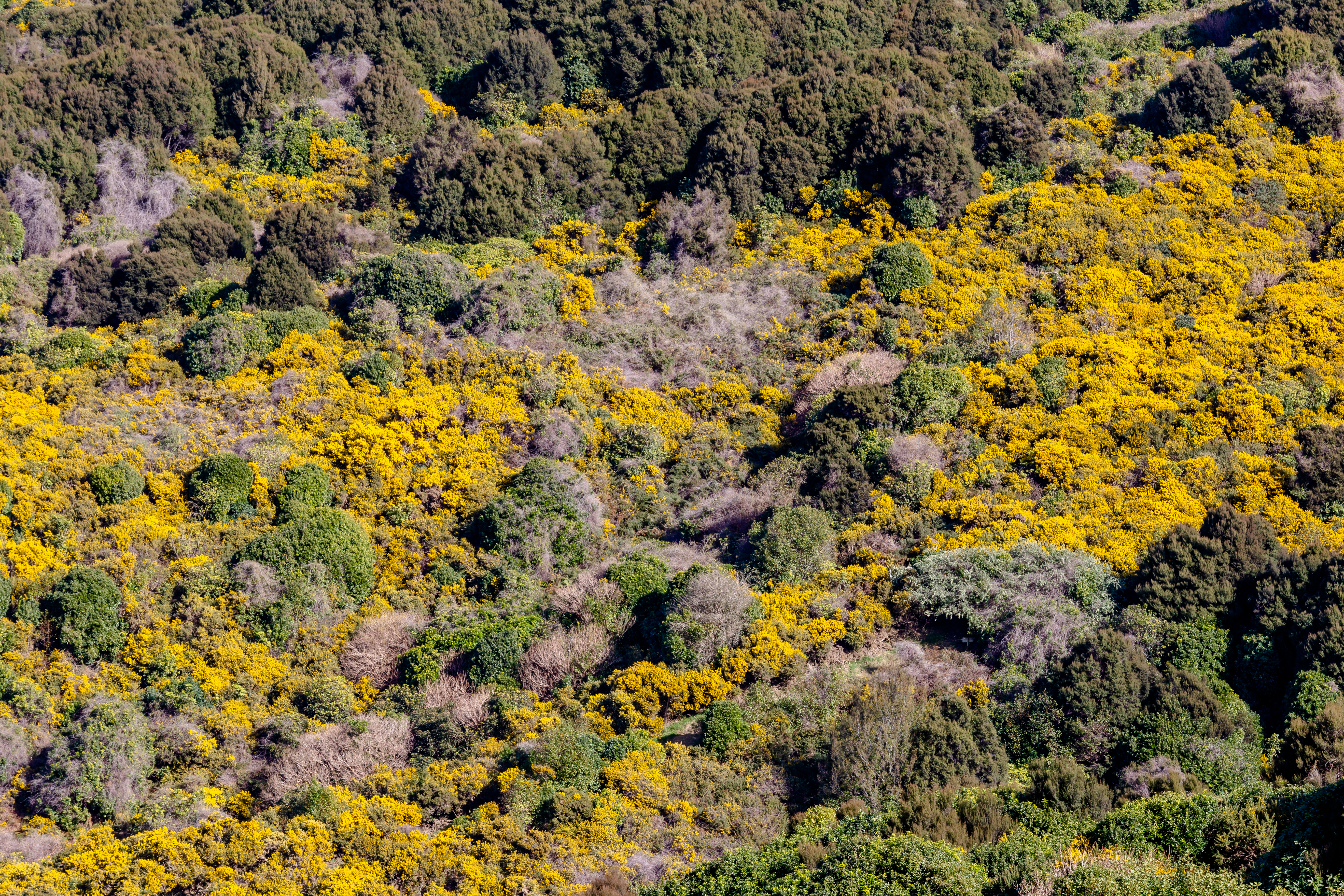 Gorse (yellow) being overtaken by native bush. Hinewai Reserve, Banks Peninsula, Canterbury, New Zealand